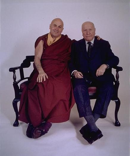 Jean-François Revel and his son Matthieu Ricard. Portrait by Elsa Dorfman.